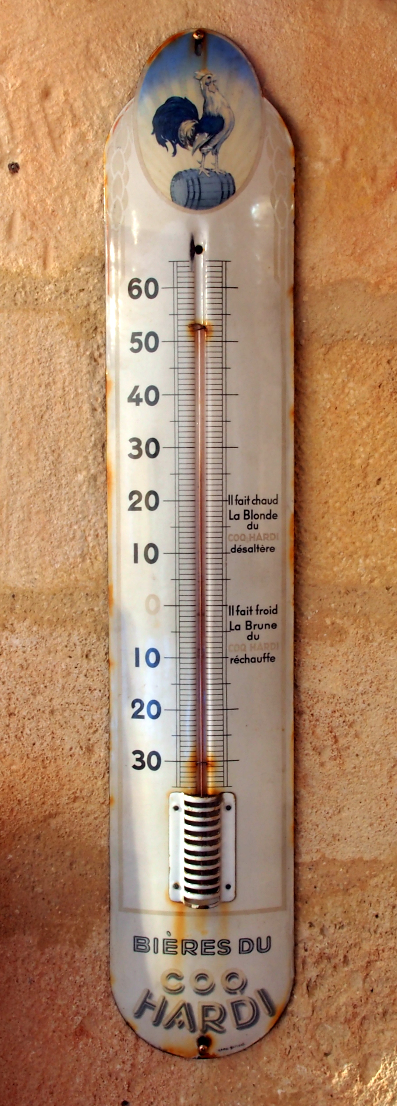 Bières du CoQ Hardi enamel thermometer.